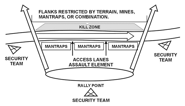 Diagram of a linear ambush.